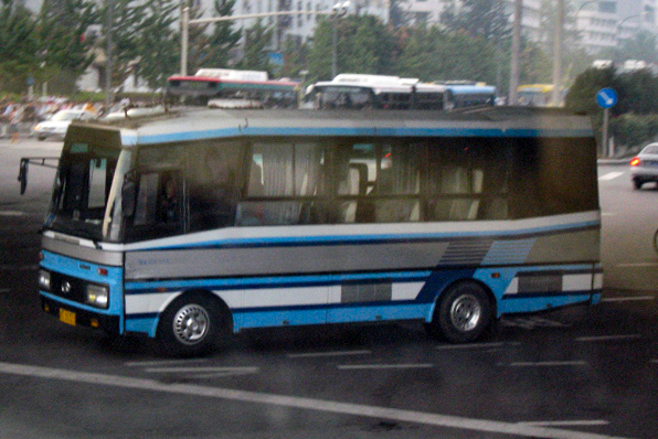 It has shorter front suspension...